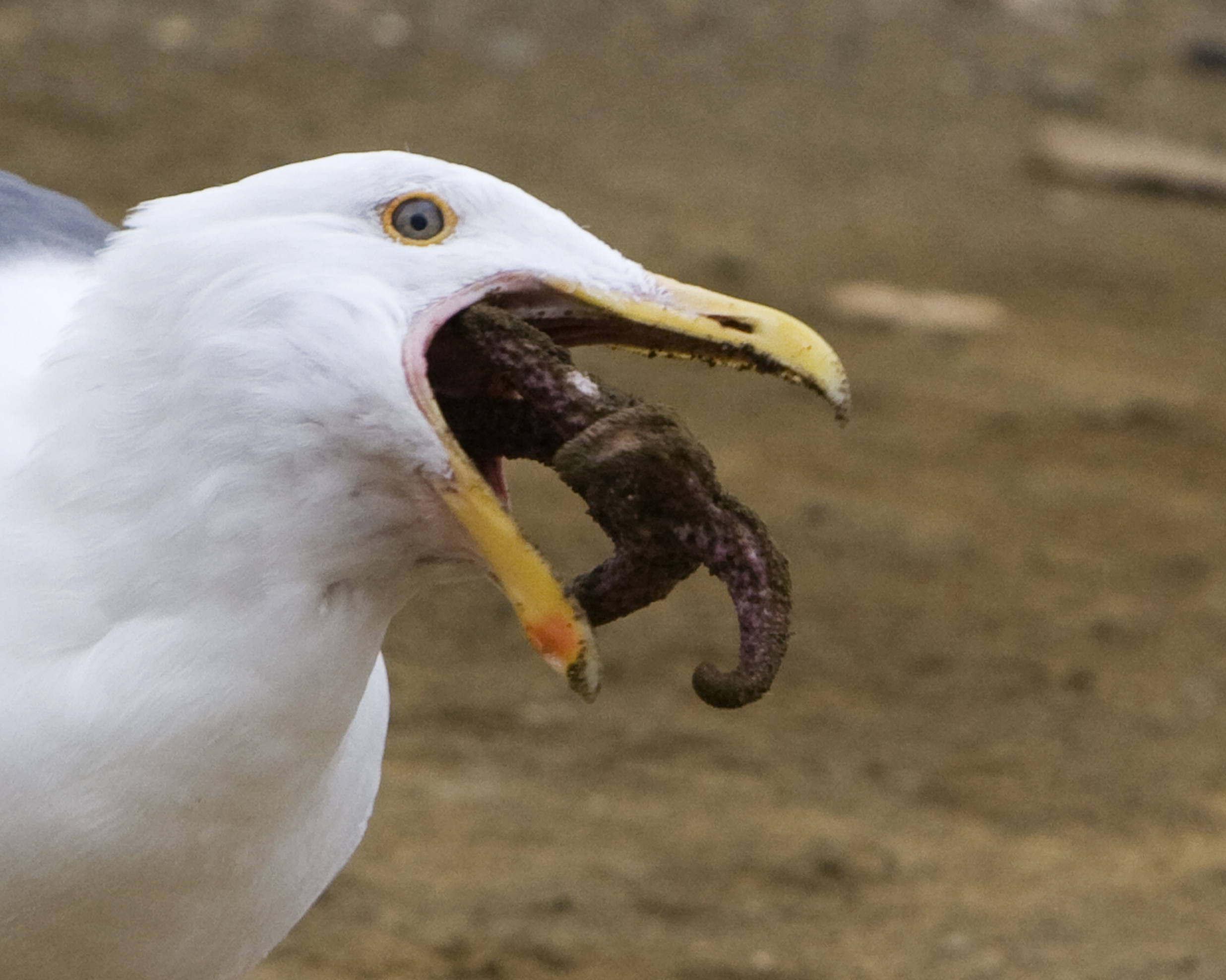 Western Gull at Morro Rock chowing down on a starfish.